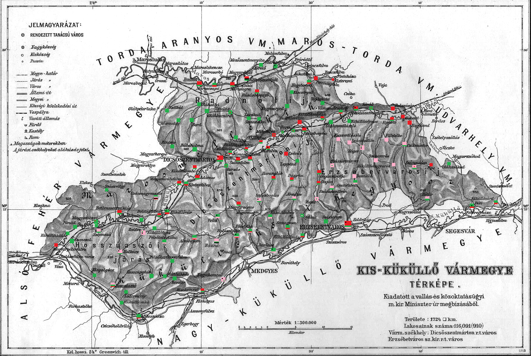 Ethnic map of the county (with data of the 1910 census). Key: dark green - Romanians; red - Hungarians; pink - Germans; black - Roma. Coloured dots in plain rectangles imply the presence of smaller minority populations (generally more than 100 people or 10%). Multicoloured rectangles imply cities and villages with multi-ethnic populations with the order of the stripes following the ethnic composition of the settlement.